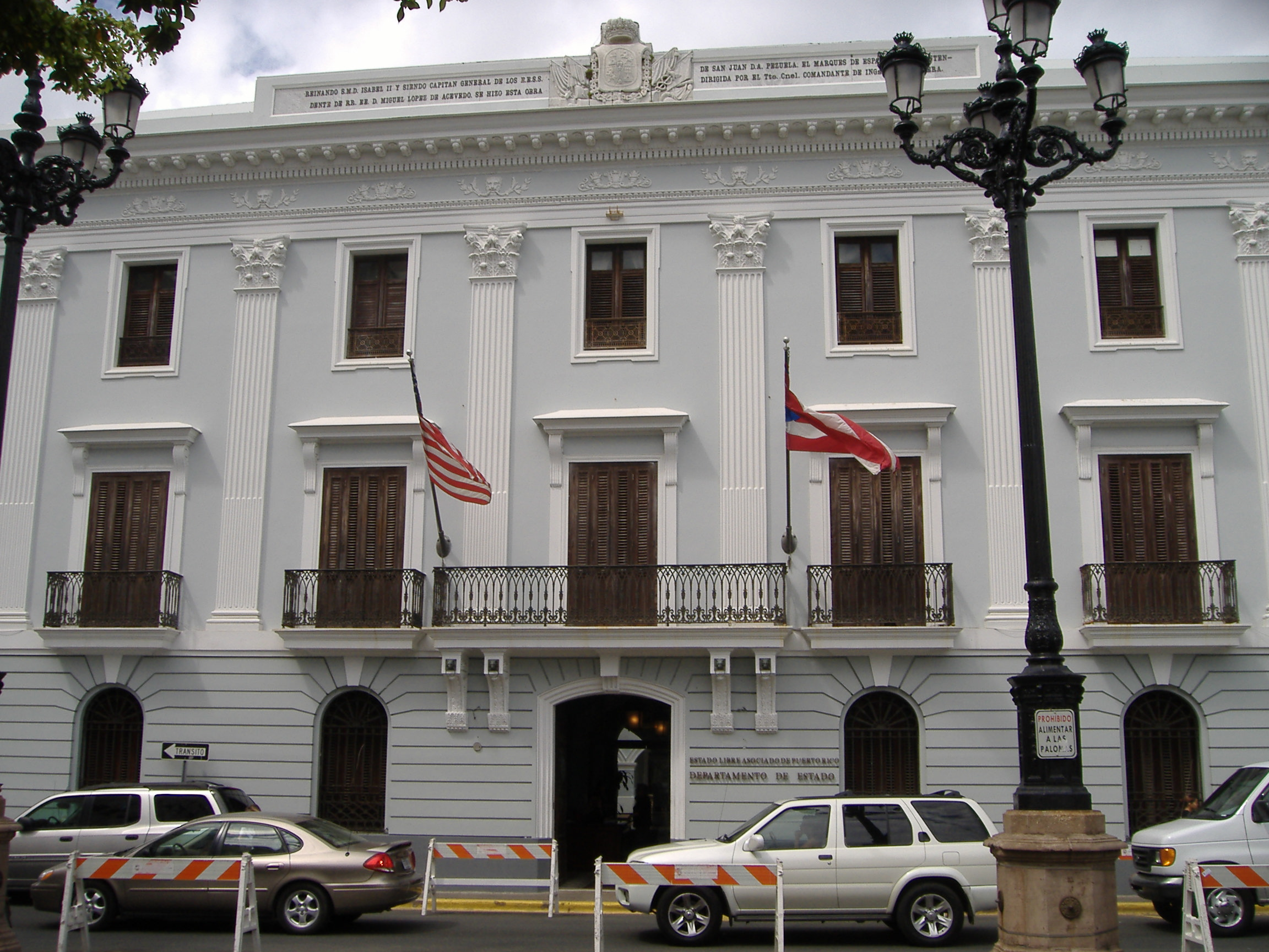 Palacio de la Real Intendencia Front view of the Puerto Rico State Department offices in Calle San Francisco, San Juan, Puerto Rico.